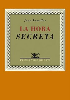 Portada del libro "La hora secreta" del poeta Juan Lamillar